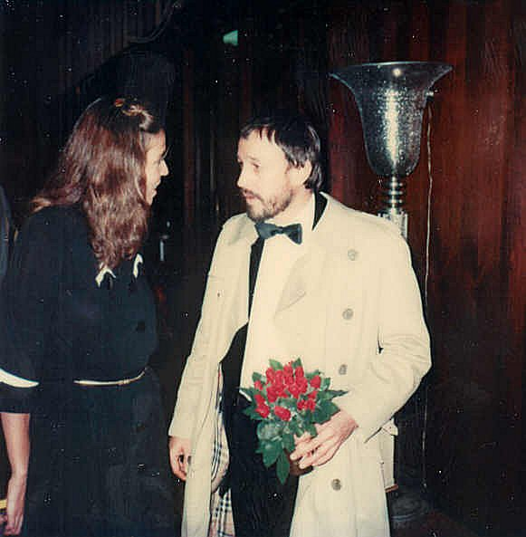 Frederic Forrest at the premiere of Bette Midler's movie THE ROSE, 11/7/79 - Permission granted to copy, publish, broadcast or post but please credit "photo by Alan Light" if you can